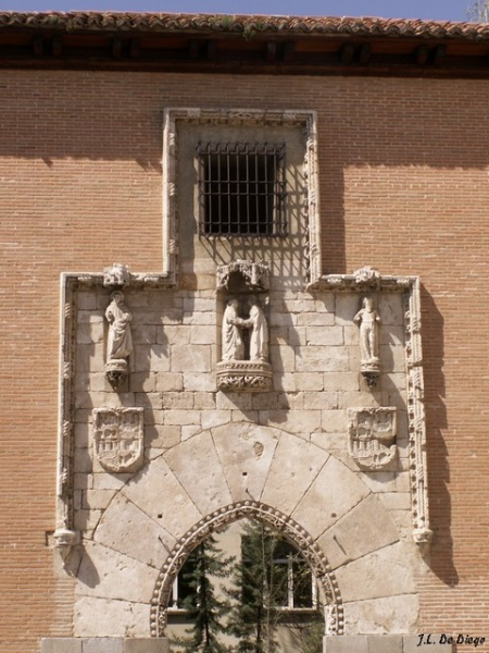 Old gate from Hospital of La Latina (1499-1507). Madrid, Spain